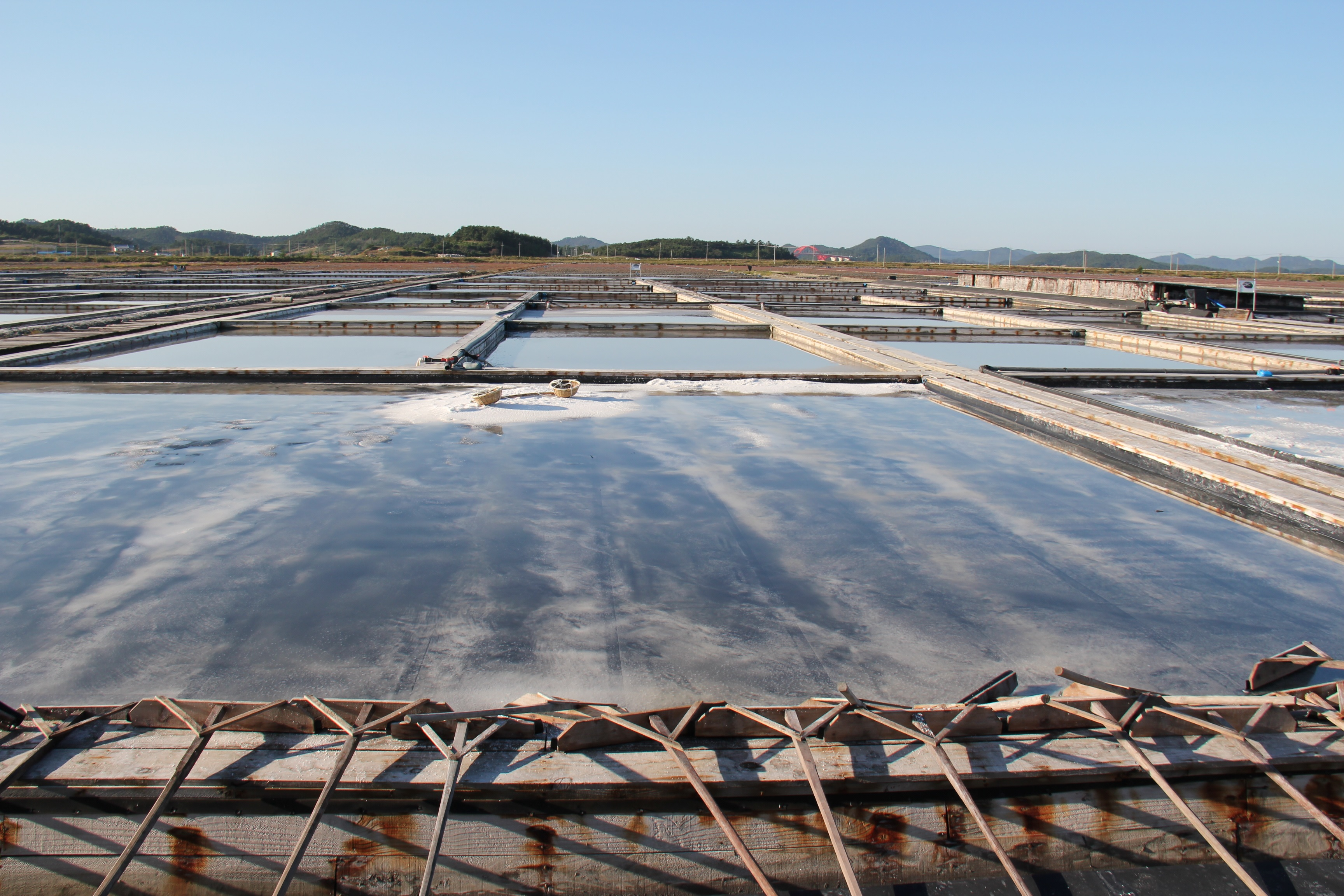 Taepyeong salt field in Jeungdo-myeon, Sinan-gun, South Jeolla, South korea.